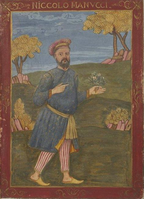 A painting of Niccolò Manucci